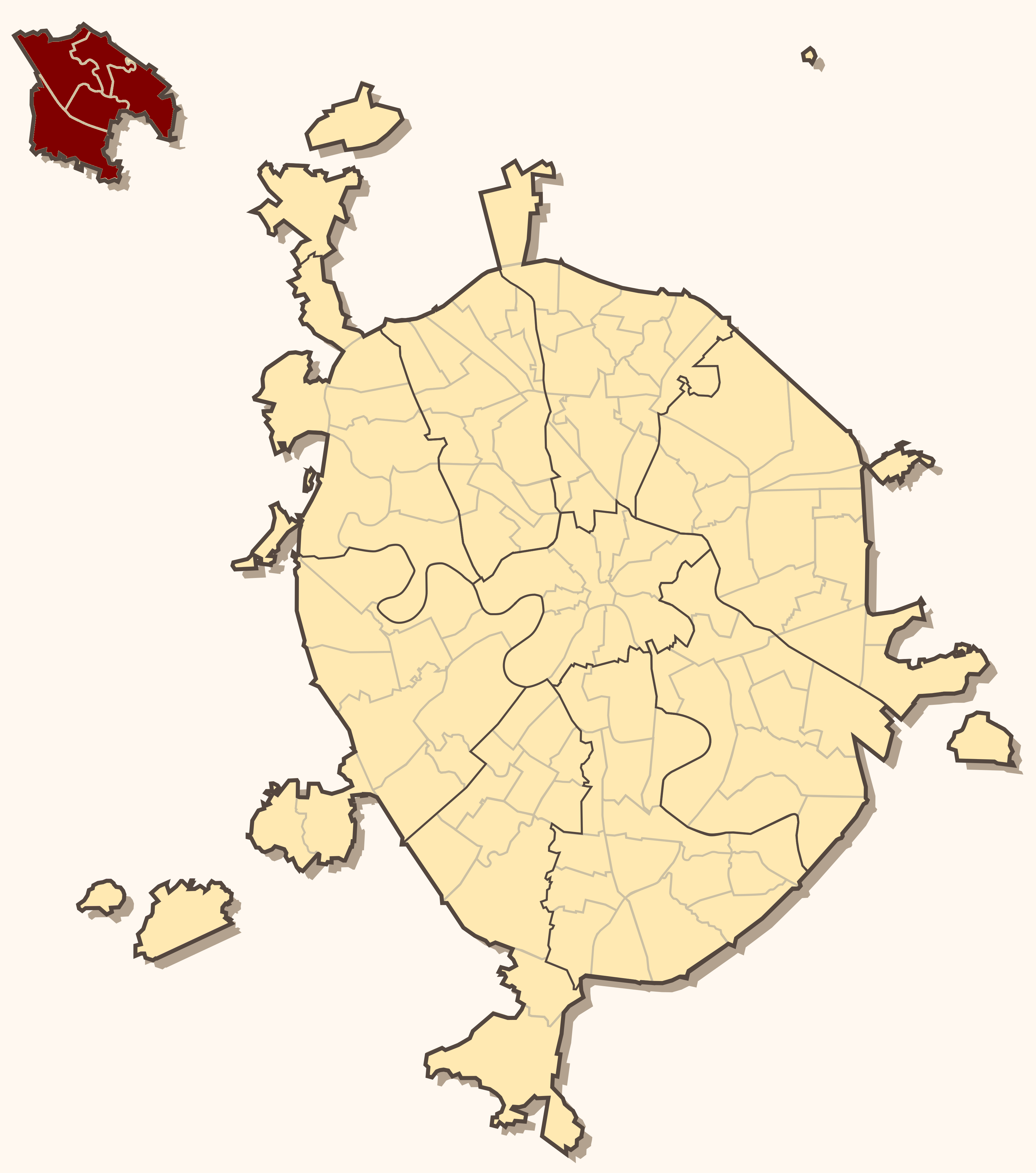 Map of Zelenogradskoe Blagochinie of Moscow